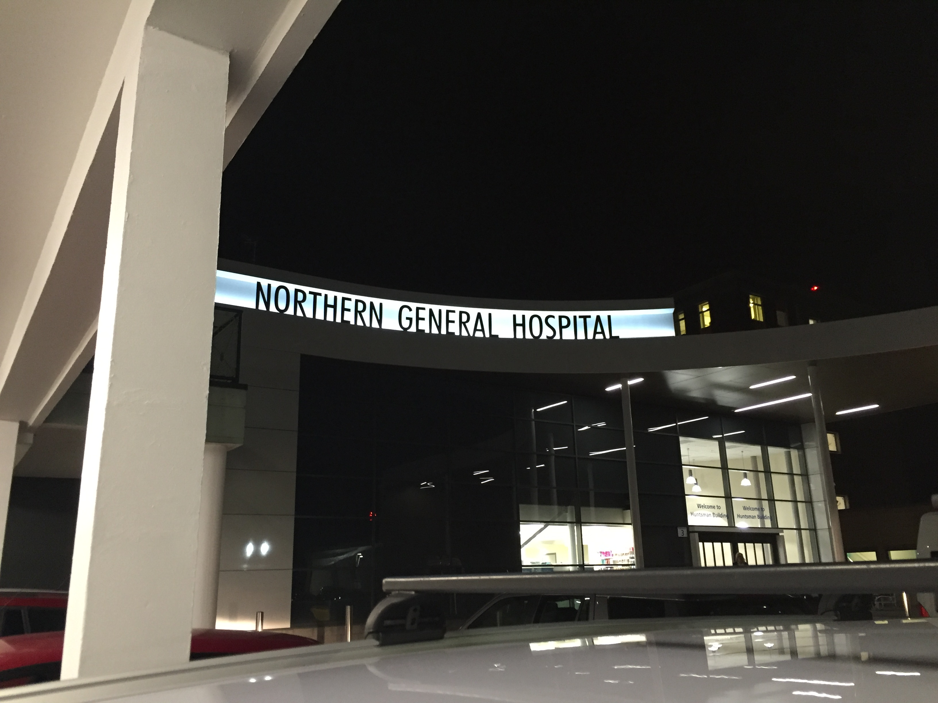 Revamped Huntsman Building Entrance